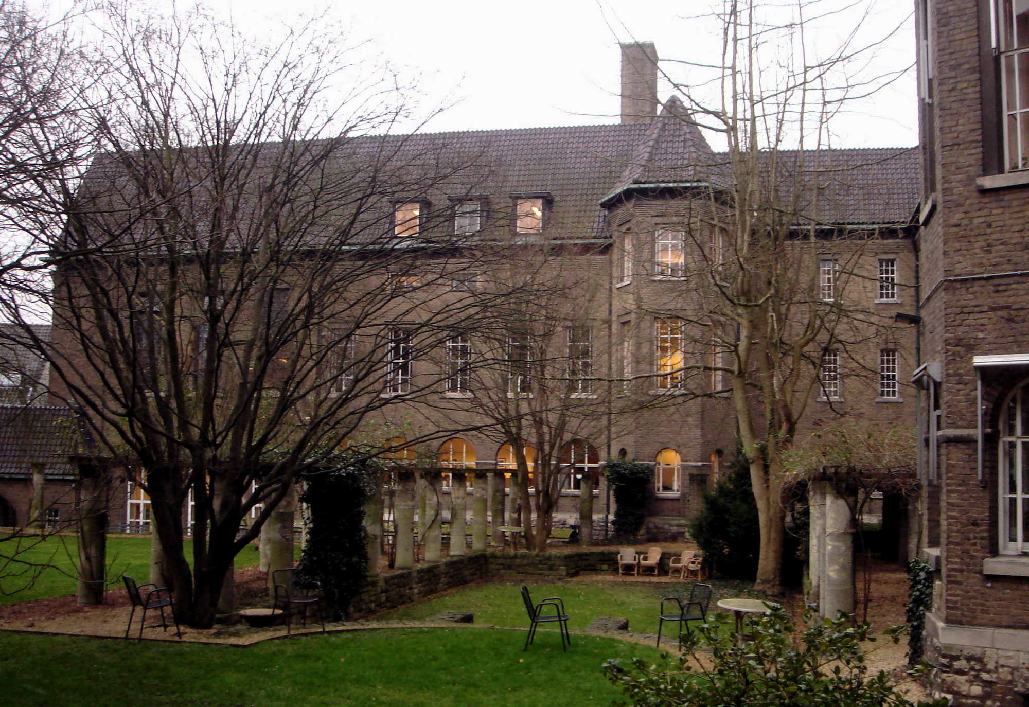 Maastricht University - Garden of the Faculty of Law, Bouillonstraat, Maastricht, the Netherlands.